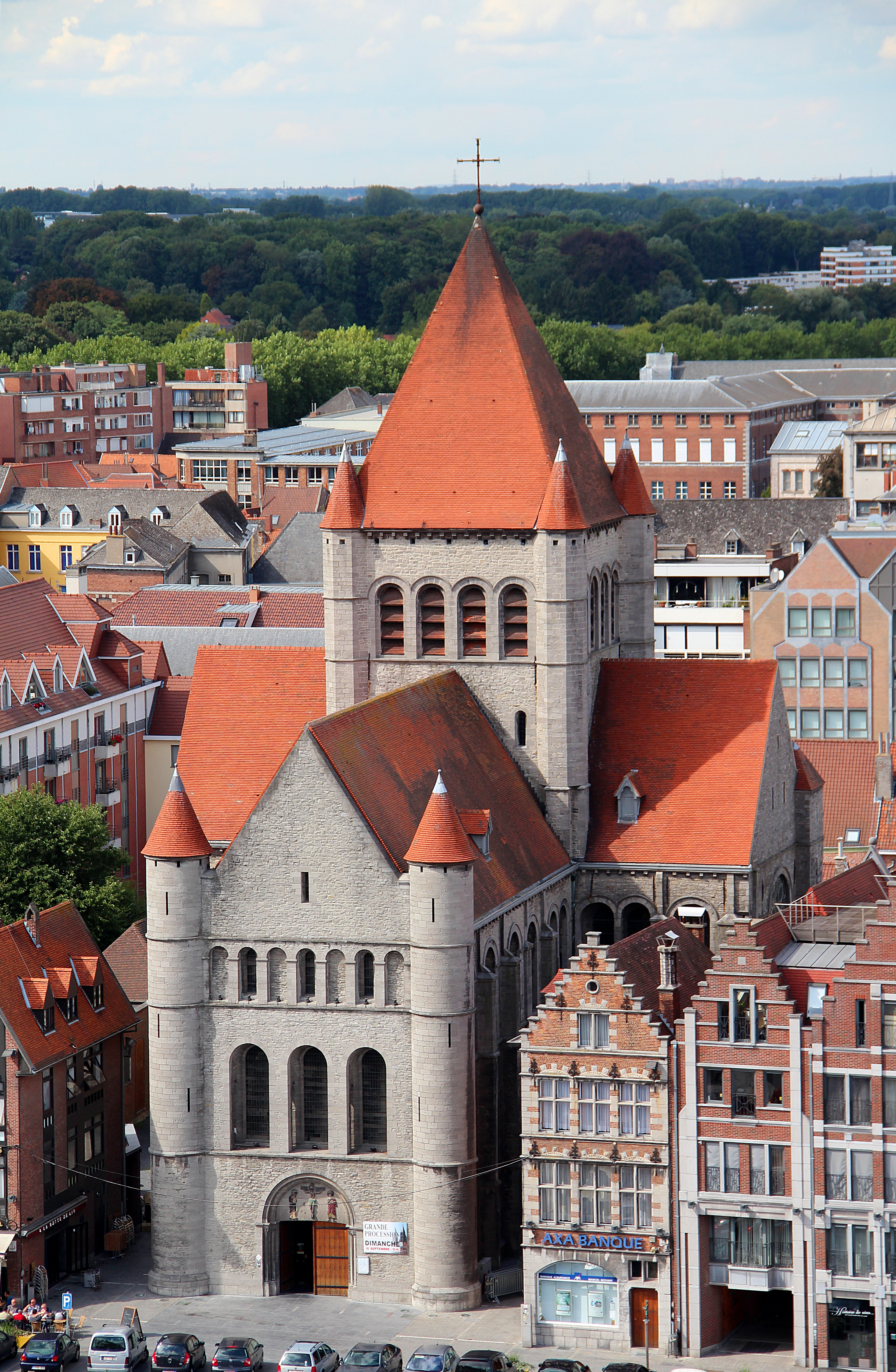 Tournai (Belgium), the St. Quentin church (XII/XIIIth centuries).